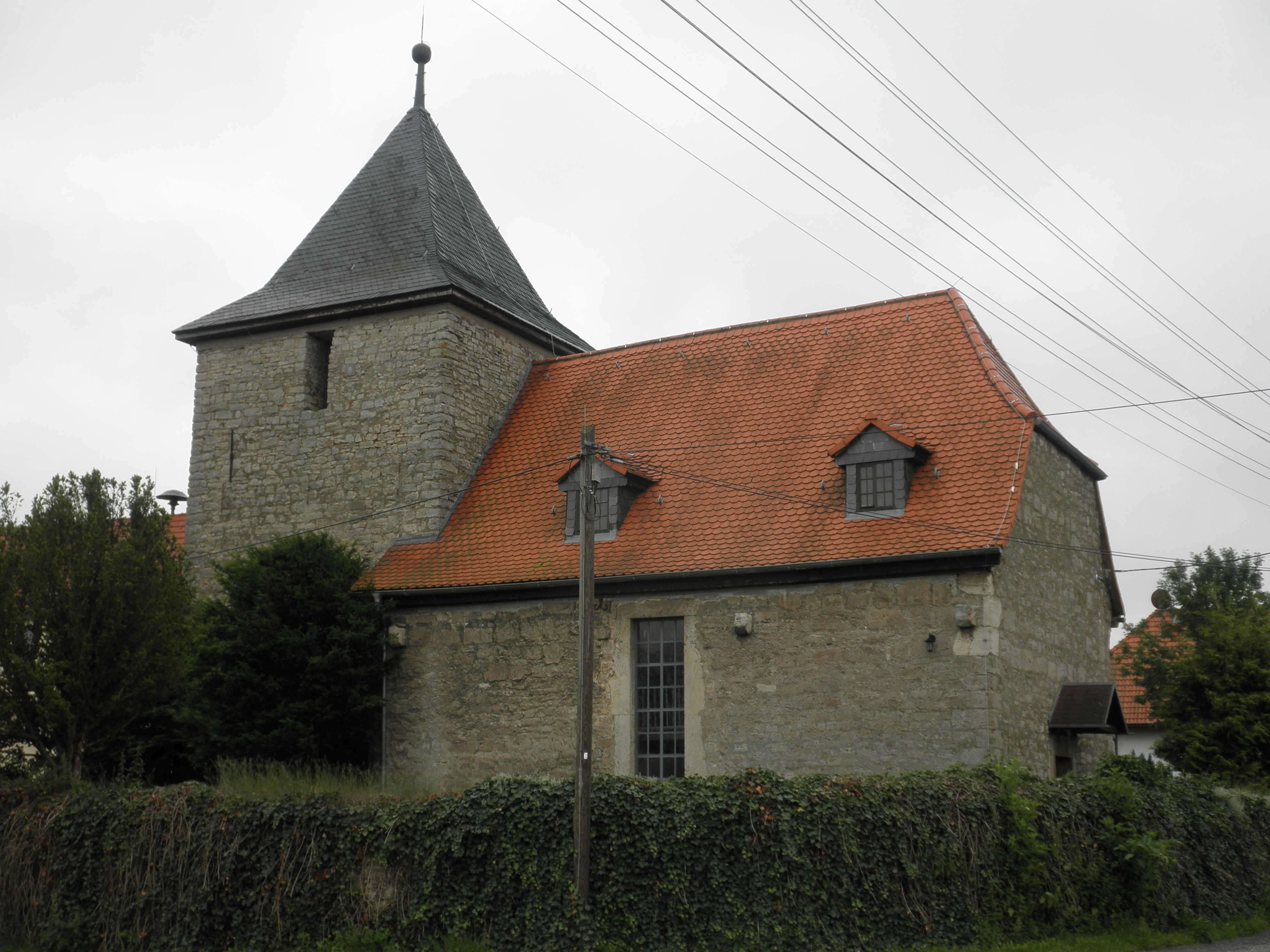 Church in Hohlstedt (Großschwabhausen) in Thuringia